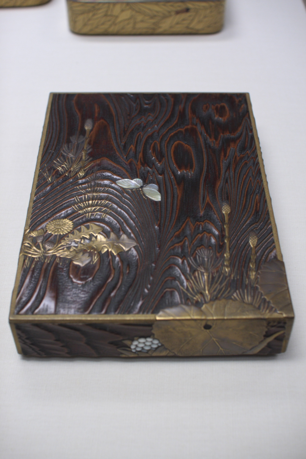 Paper box Ikeda Taishin Japan ca. 1860 Grained wood, with gold, silver and coloured lacquer, pewter and shell Wikipedia Loves Art at the Victoria and Albert Museum This photo of item # [1] at the Victoria and Albert Museum was contributed under the team name "UK_FGR" as part of the Wikipedia Loves Art project in February 2009. Victoria and Albert Museum The original photograph on Flickr was taken by the wee pixie—please add a comment to the original Flickr page whenever a use has been made on Wikipedia or another project. Project galleries on Flickr: this institution, this team